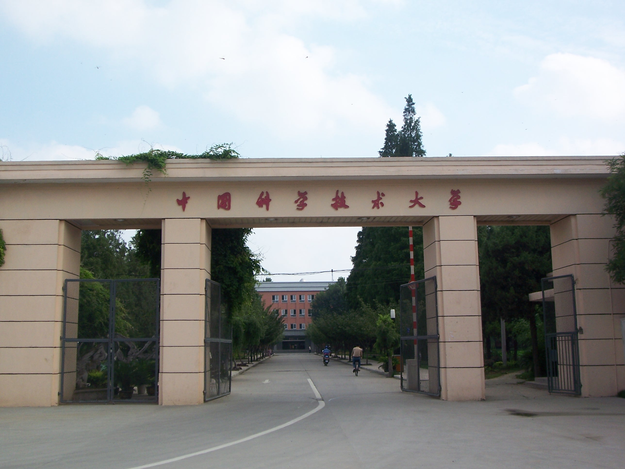 former North gate of the East Campus of University of Science and Technology of China